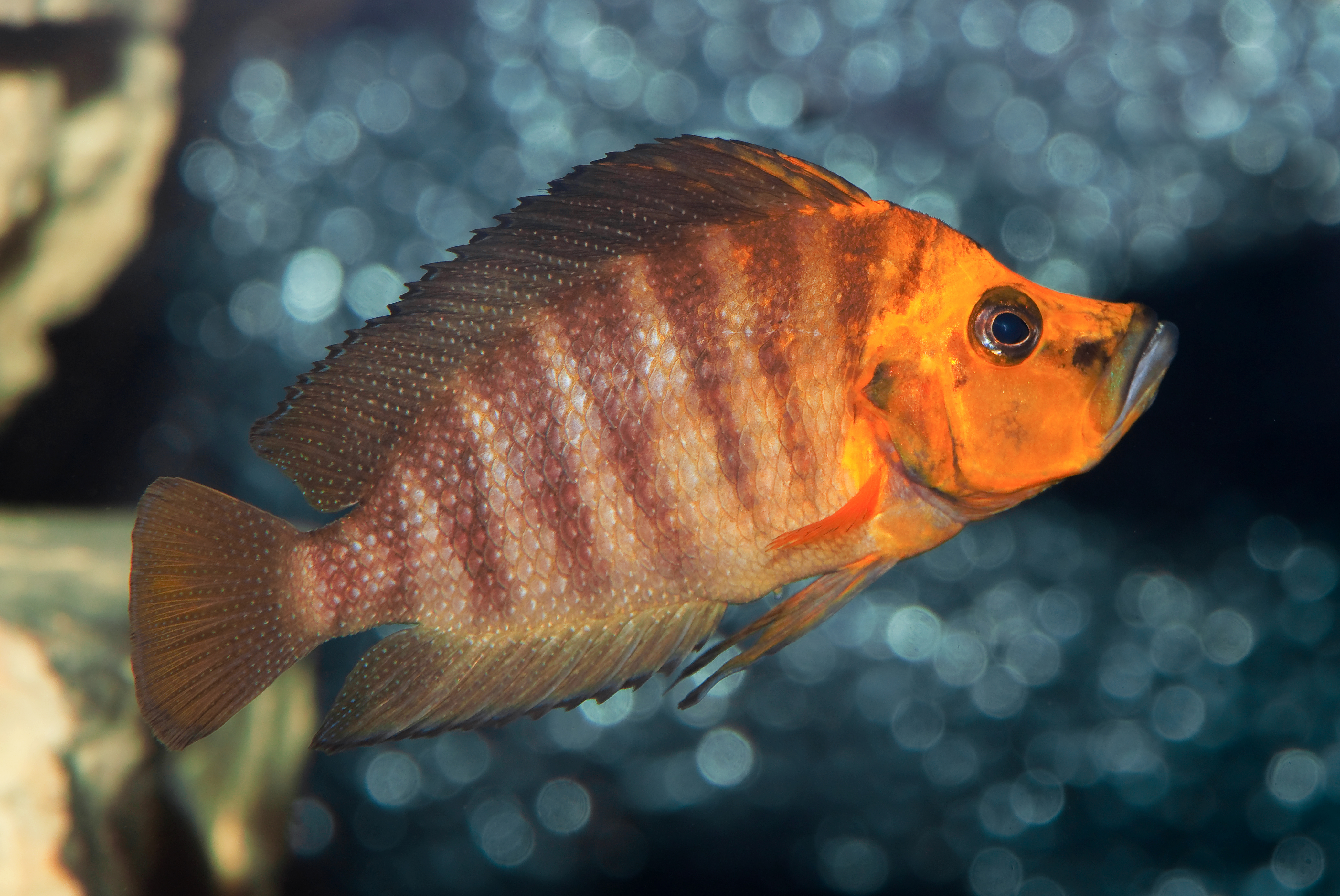 Altolamprologus compressiceps (Boulenger, 1898), Compressed cichlid; Karlsruhe Zoo, Karlsruhe, Germany.